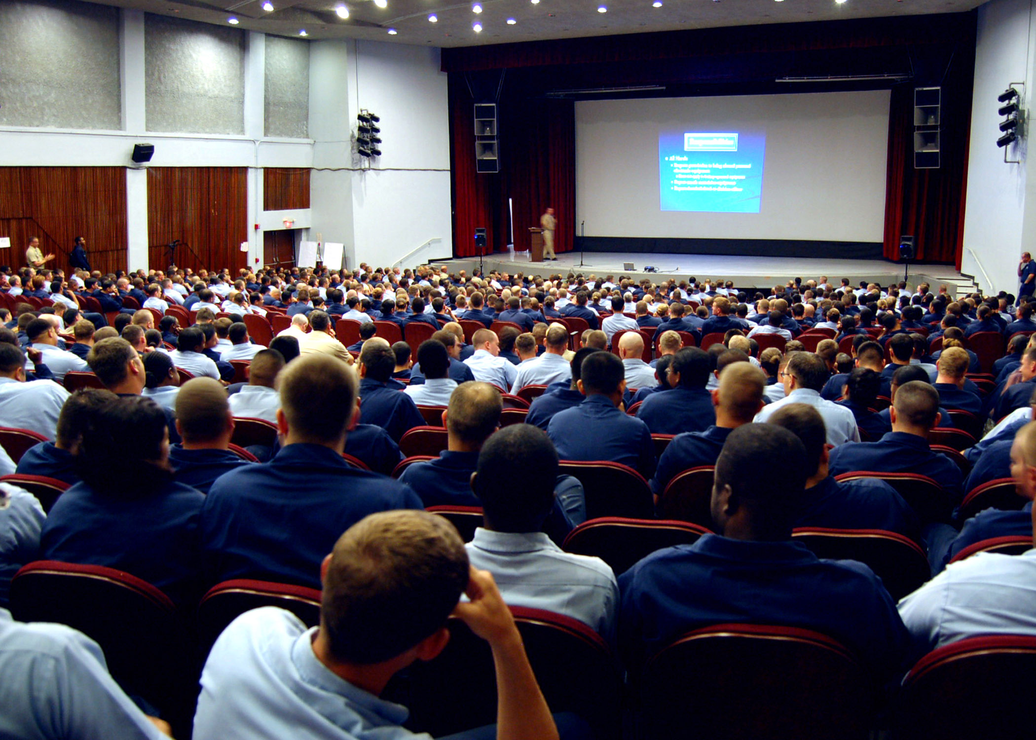 Santa Rita, Guam (Jan. 17, 2007) - Sailors assigned to submarine tender USS Frank Cable (AS 40) listen to one of a series of lectures on safety and Operational Risk Management at the Naval Base Guam base theater. The lecture was part of the U.S. Submarine force's recent operational stand down. The stand down, ordered by Vice Admiral Chuck Munns, U.S. Submarine Force commander, was designed to "focus energy and intellect on the basics of submarine operations." Although Frank Cable isn't a submarine, it is an asset of the U.S. Navy's submarine community and the command used the opportunity to focus on the types of day-to-day risks the crew may face during the current phased maintenance availability that began Jan. 8. Frank Cable is forward deployed to Apra Harbor, Guam in support of submarines deployed to 7th Fleet. U.S. Navy photo by Mass Communication Specialist 1st Class Jeremy Johnson (RELEASED)